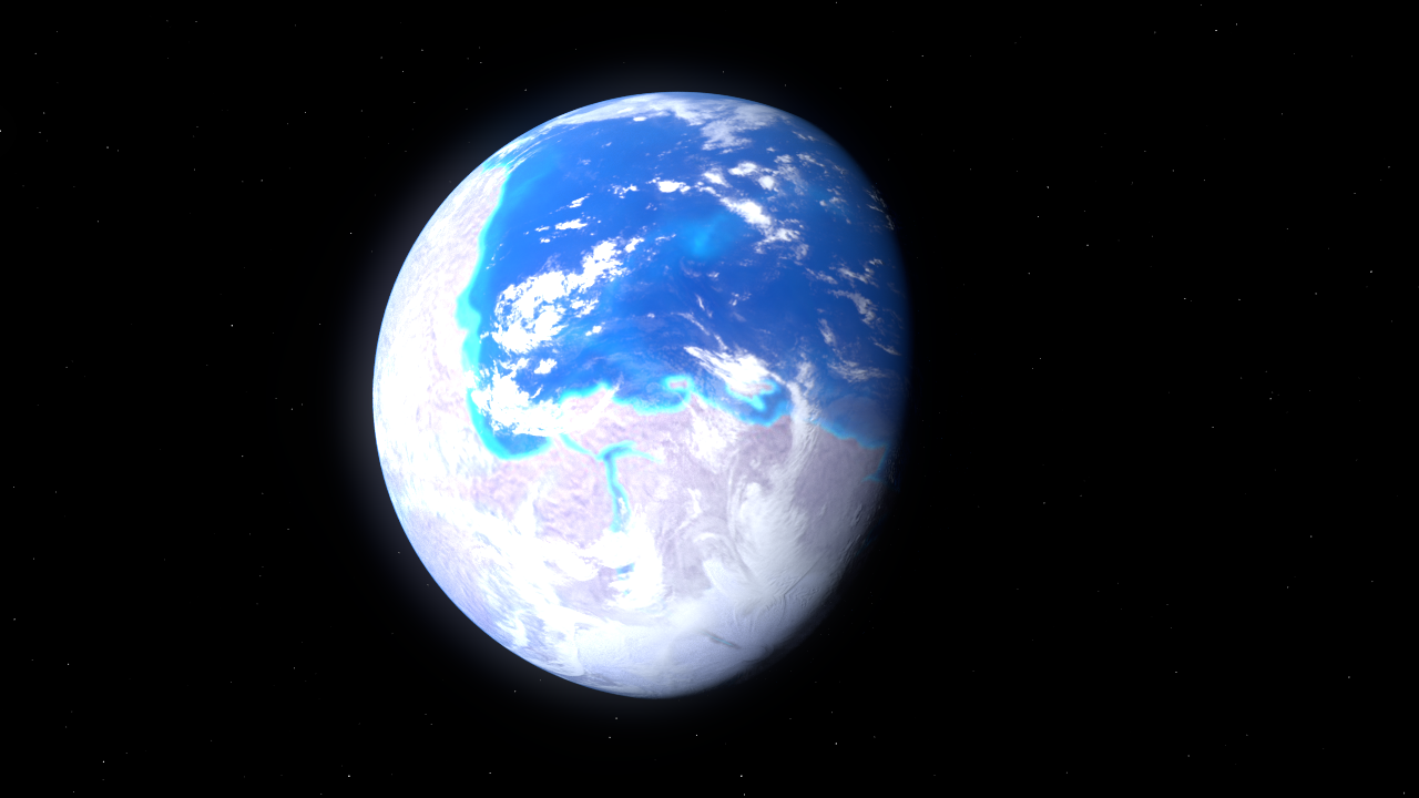 A render of the Earth 600 Million Years ago, of the Late Neoproterozoic supercontinent Pannotia. Texture is from [1]